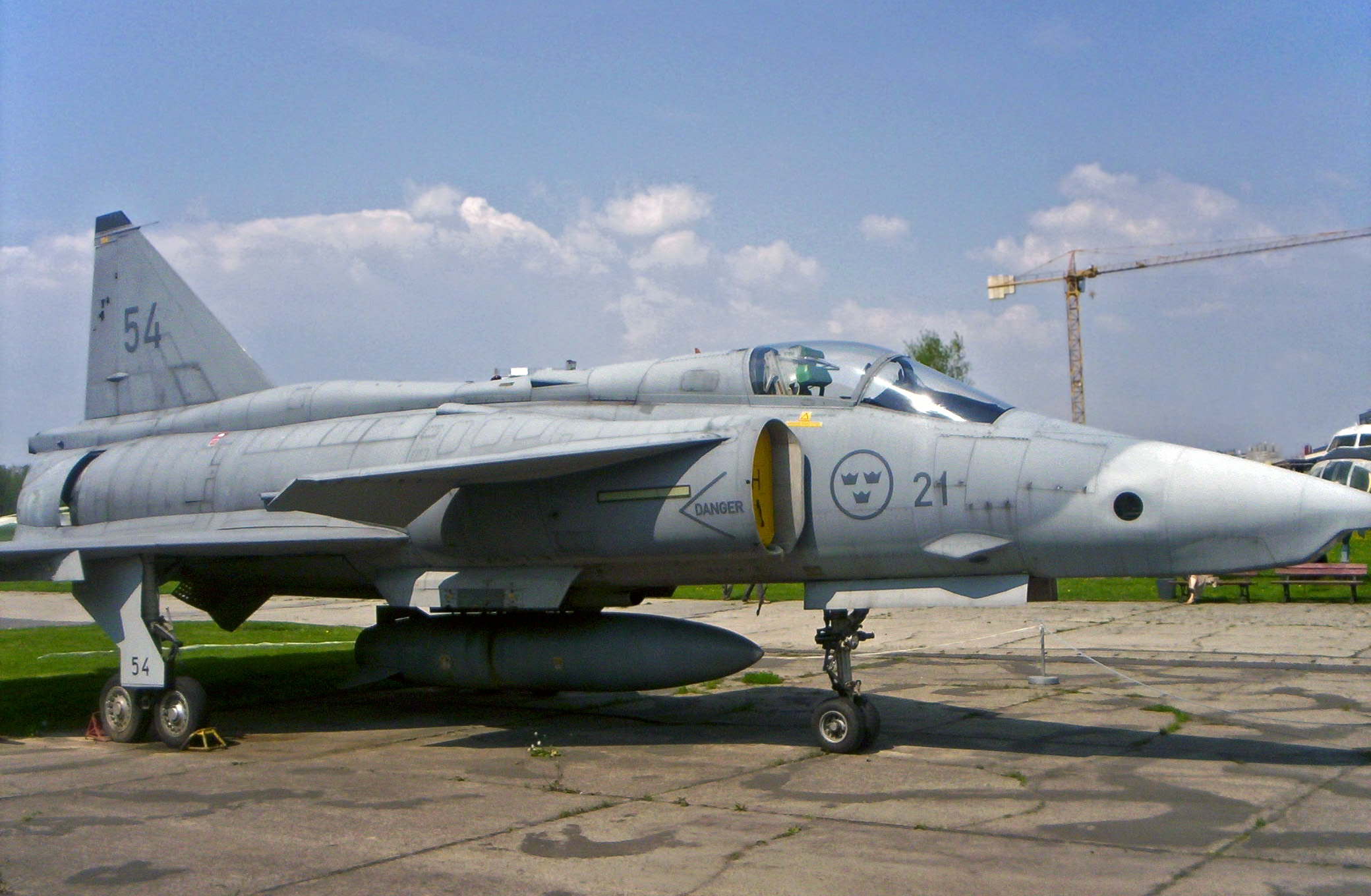 Saab AJSF 37 Viggen (37954) at Muzeum Lotnictwa Polskiego in Krakow, Poland.